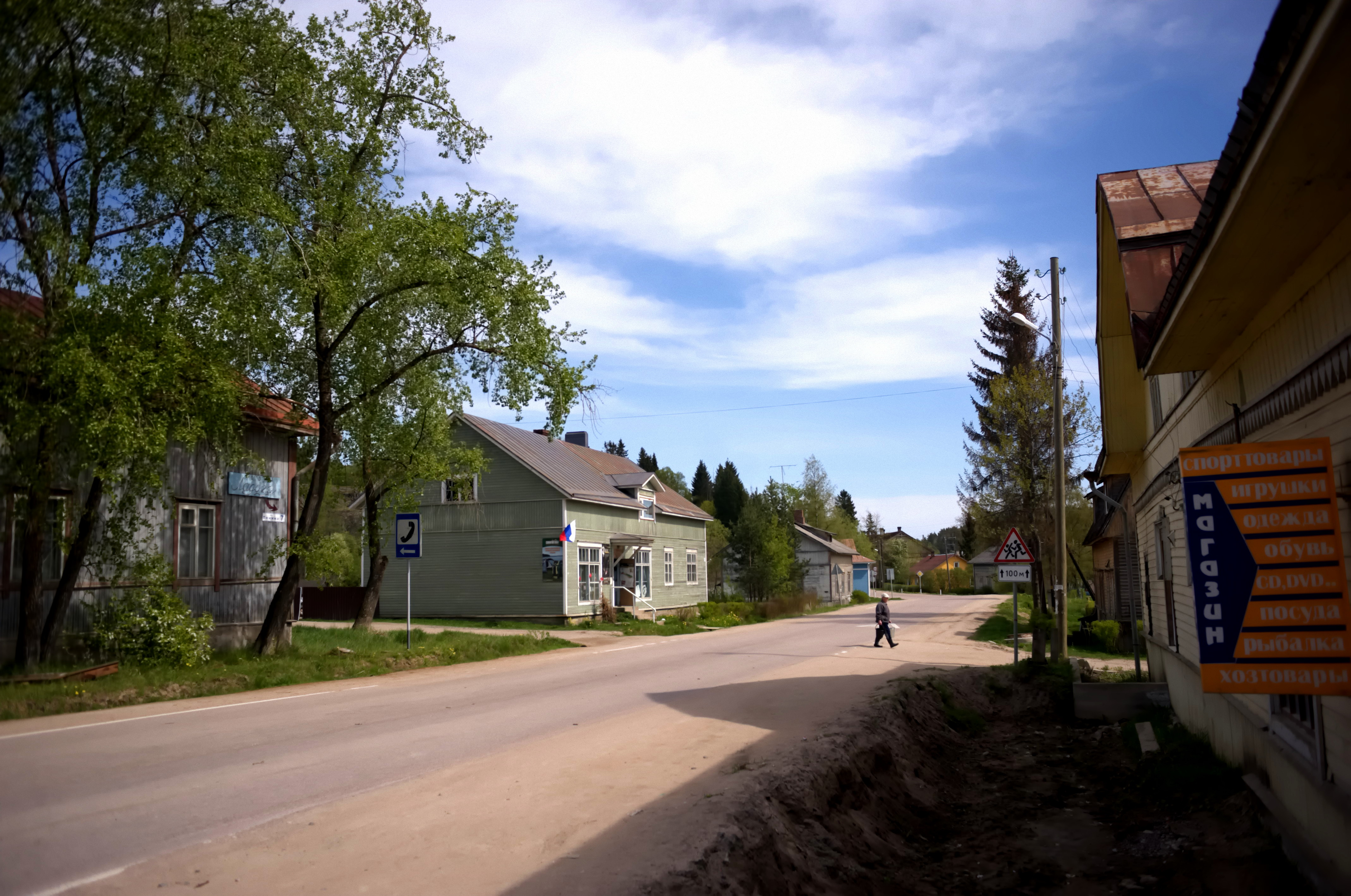 Kurkijoki May 14th 2016